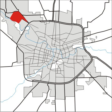 Argüello neighborhood in Córdoba, Argentina. Highlighted in red.